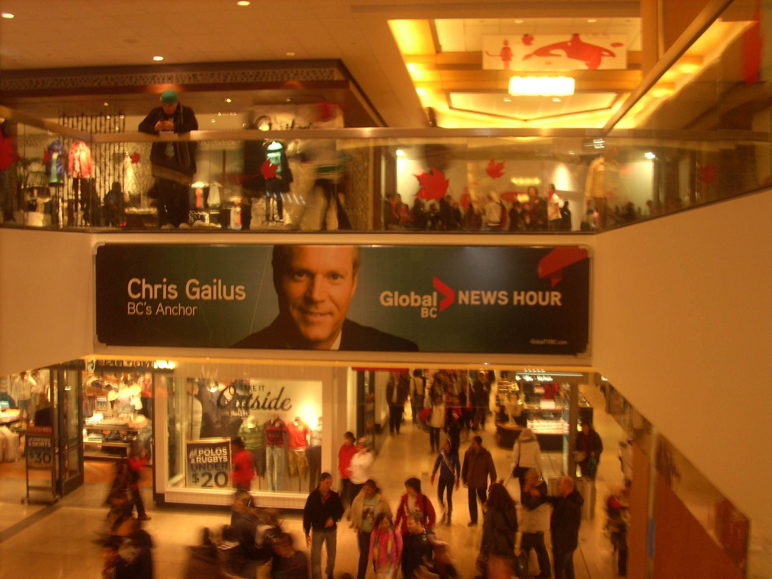 Global Vancouver News Hour banner photographed in Vancouver, British Coumbia, Canada at the 2010 Winter Olympics.